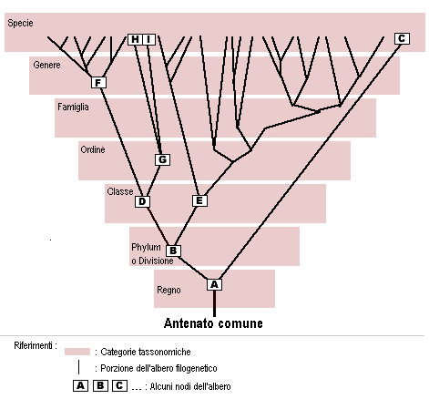 phylogenetic tree